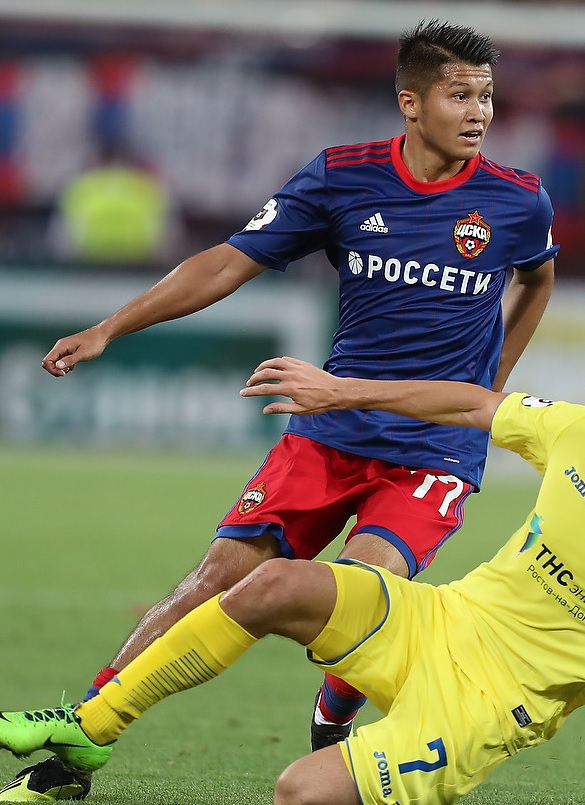 Ilzat Akhmetov with PFC CSKA Moscow in a game against FC Rostov.